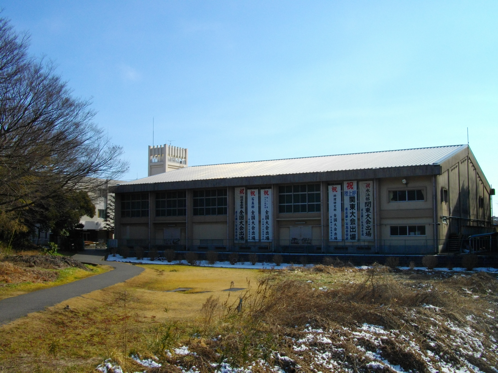 Kamagaya High School